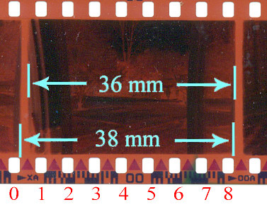 Scanned by the uploader Caltrop 19:36, 28 May 2007 (UTC)